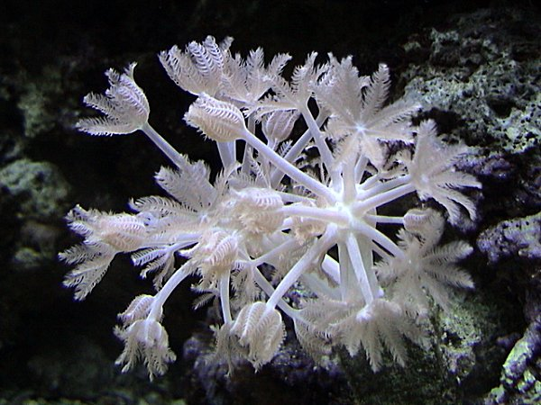 Photographer: User:Dawson